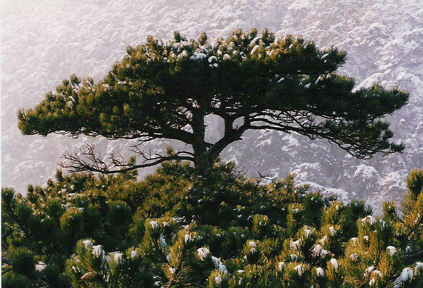 Austrian Black Pines covered with snow